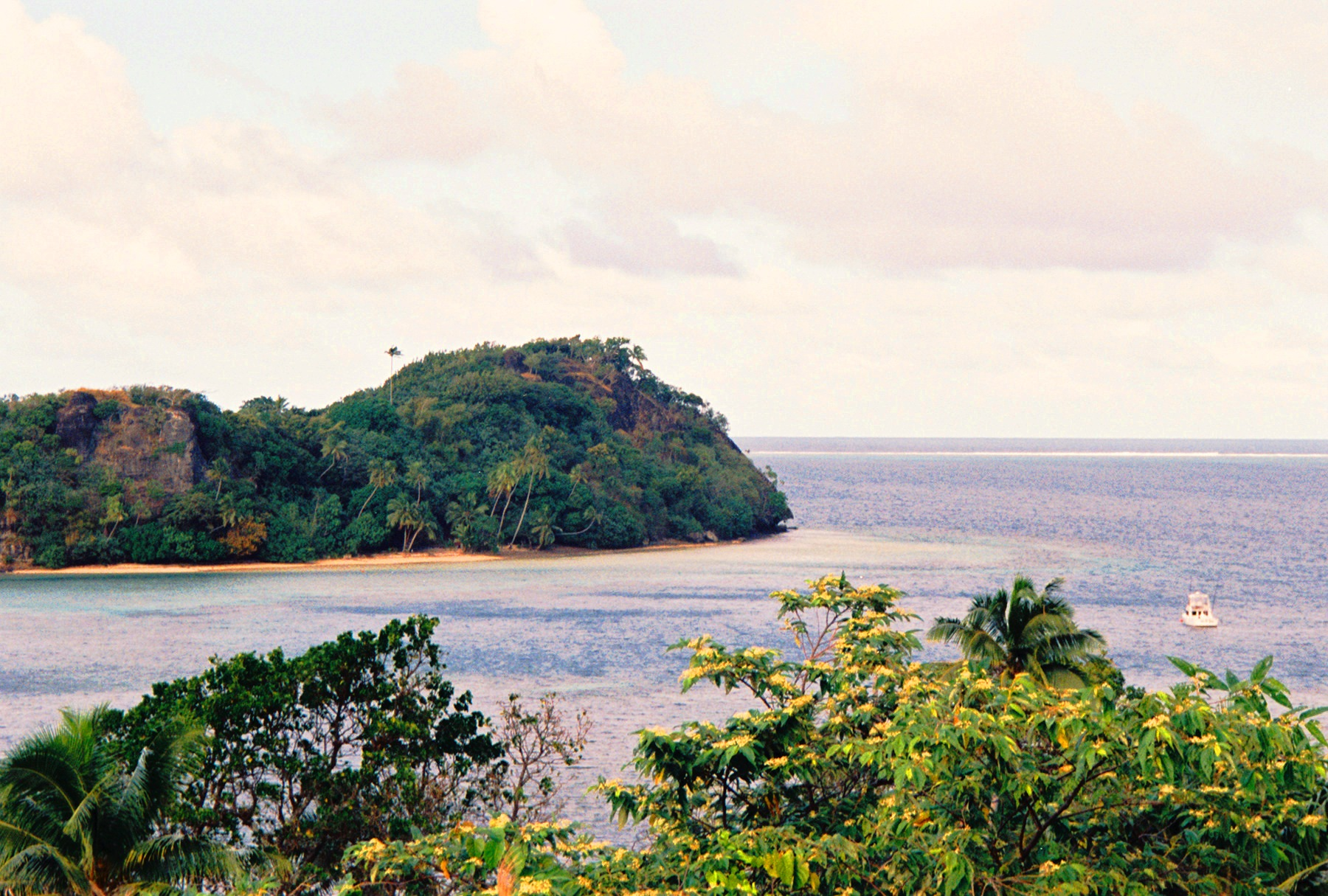 Kadavu and the Great Astrolabe Reef from Matava on the south of the Island